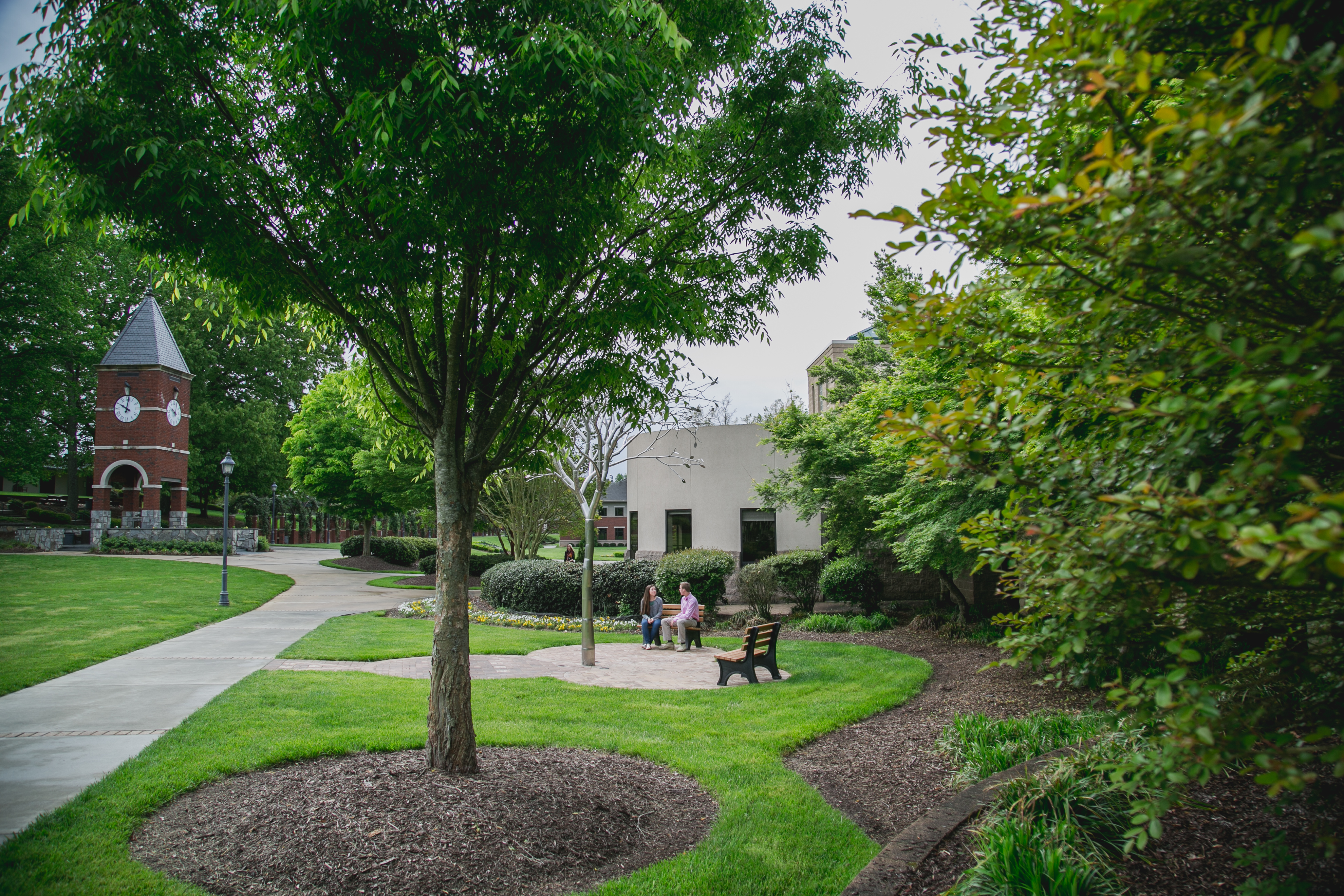 The entrance to Ravenscroft School in Raleigh NC